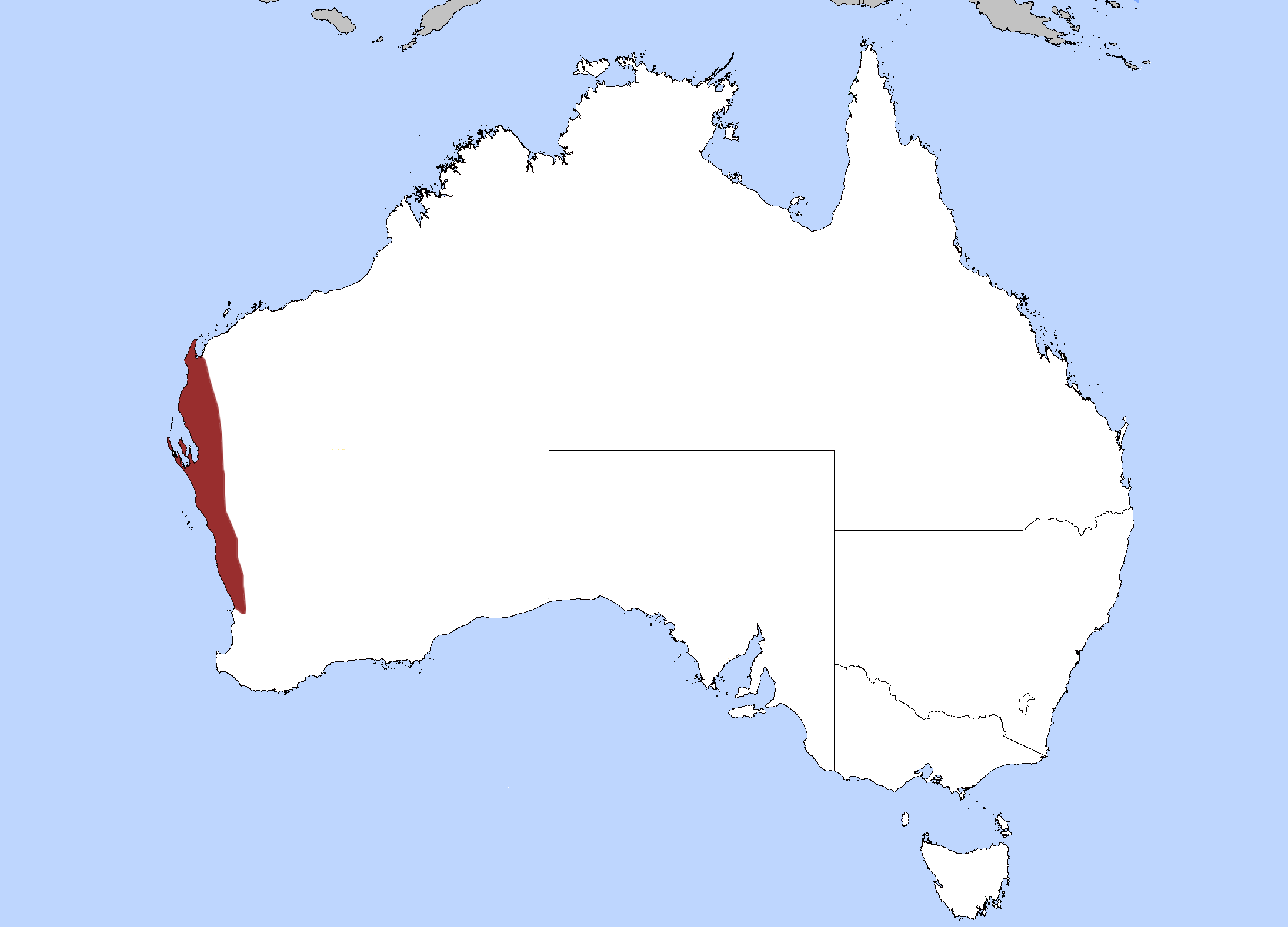 The Distribution of the Western Worm Lerista